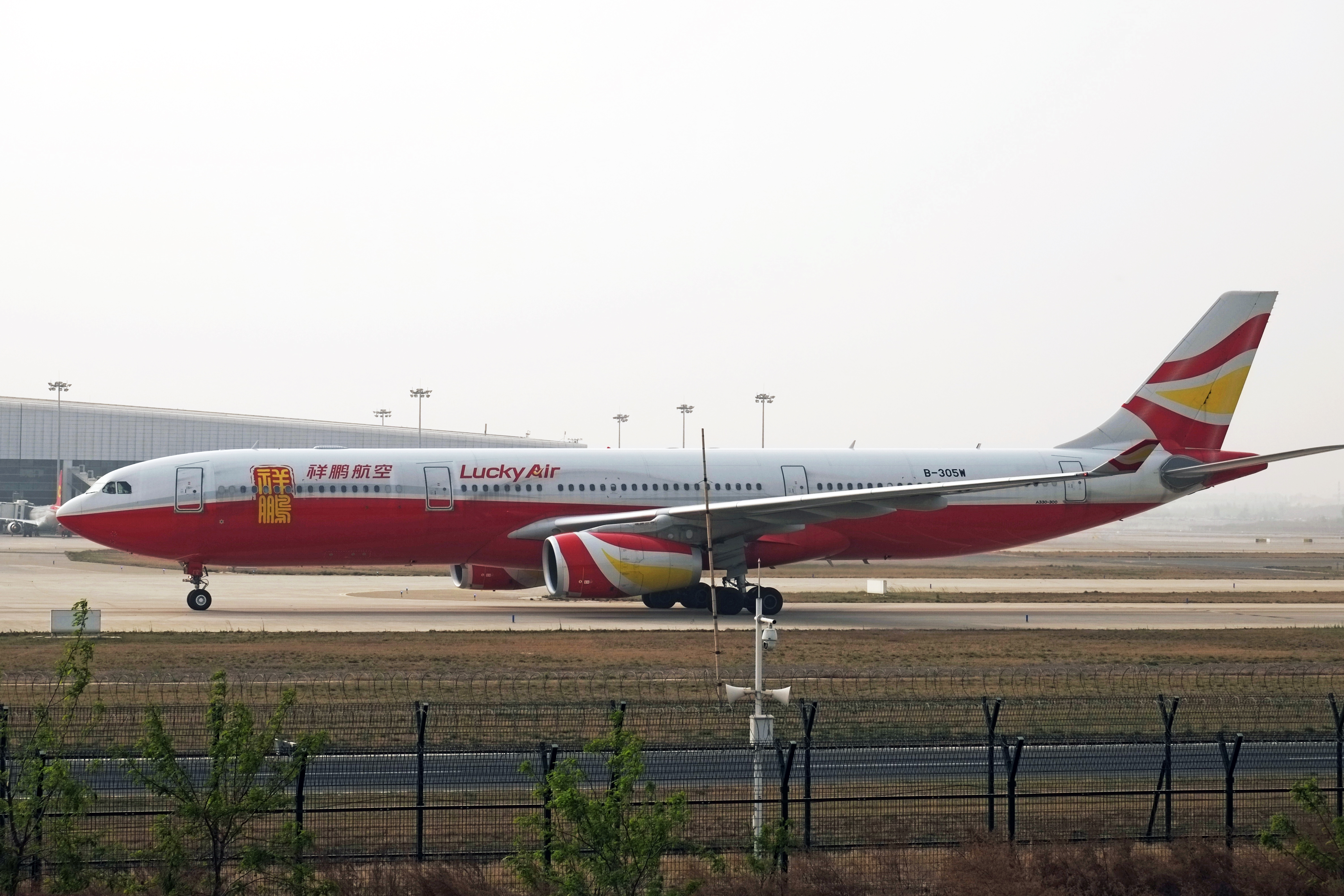 B-305W on flight 8L9629 from Chengdu at CGO